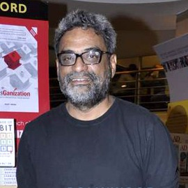 Film director R. Balki launches the book The Karachi deception of author Shatrujeet Nath.